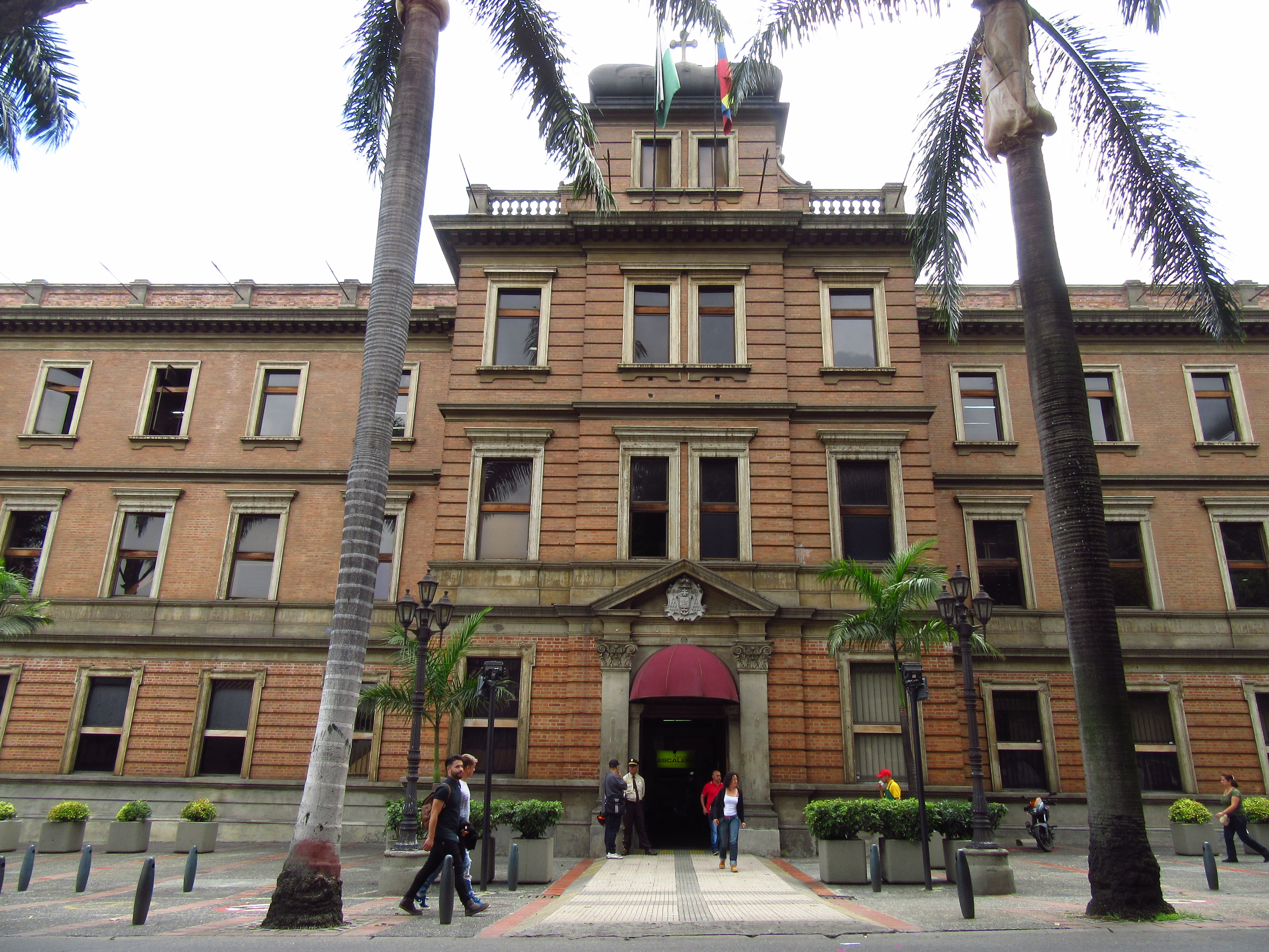 Medellín